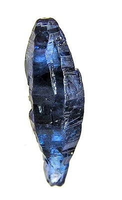 Corundum (Var.: Sapphire) Locality: Sri Lanka (Locality at ) Size: 1.3 x 0.3 x 0.3 cm. This small sapphire has superb color. And, it is doubly-terminated and has great form, as well. This was found in the stream gravels of Sri Lanka (Ceylon), the prime locality for sapphires.